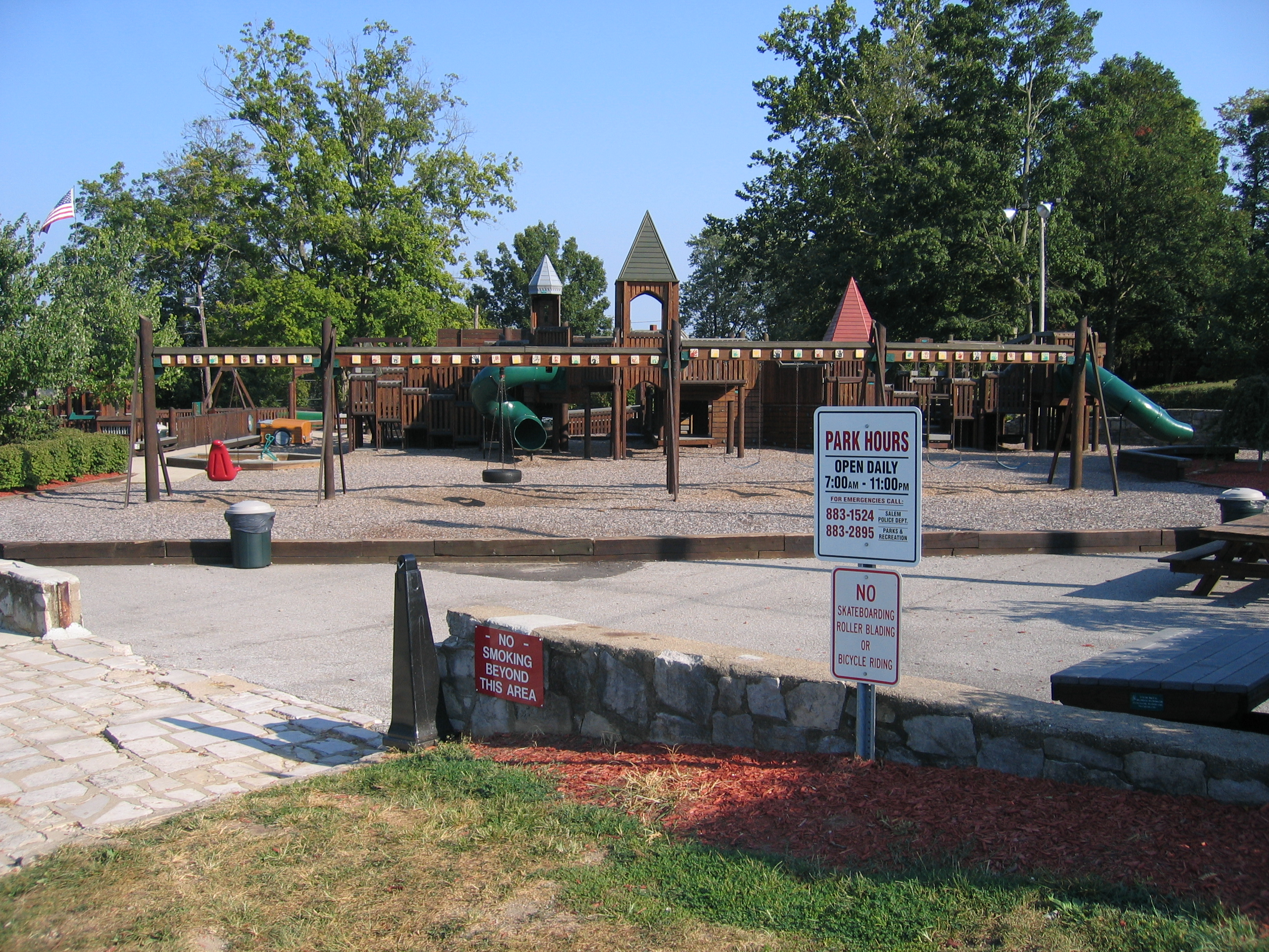 View of "Riley's Place" from its main entrance. "Riley's Place" is a large children's playground inside DePauw Park, in Salem, Indiana.